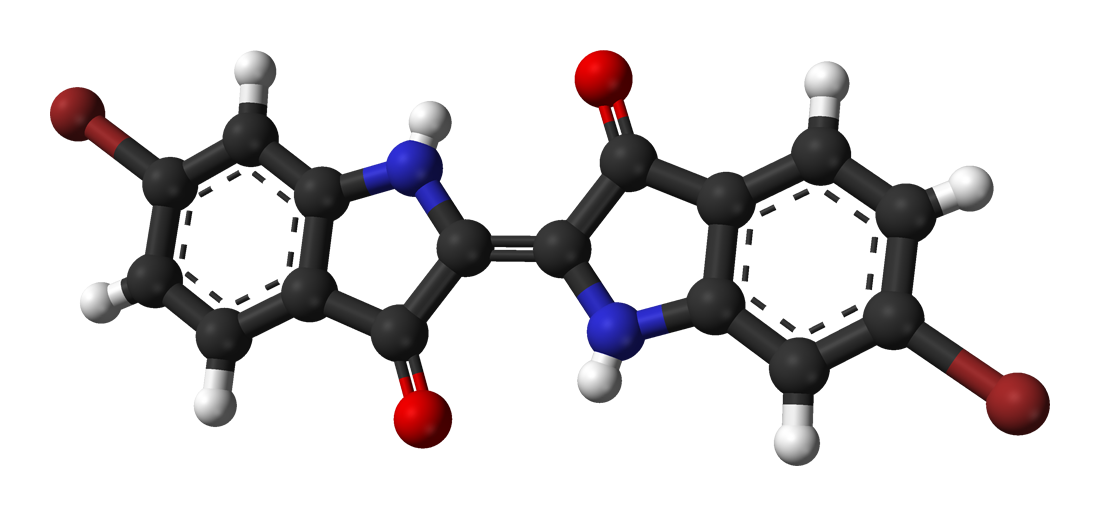 Ball-and-stick model of the Tyrian purple molecule (6,6′-dibromoindigotin), C16H8N2O2Br2. X-ray crystallographic data from Sine Larsen and Frank Wätjen (1980). "The Crystal and Molecular Structures of Tyrian Purple (6,6'-Dibromoindigotin) and 2,2'-Dimethoxyindigotin". Acta Chem. Scand. 34A: 171-176. Image generated in Accelrys DS Visualizer.